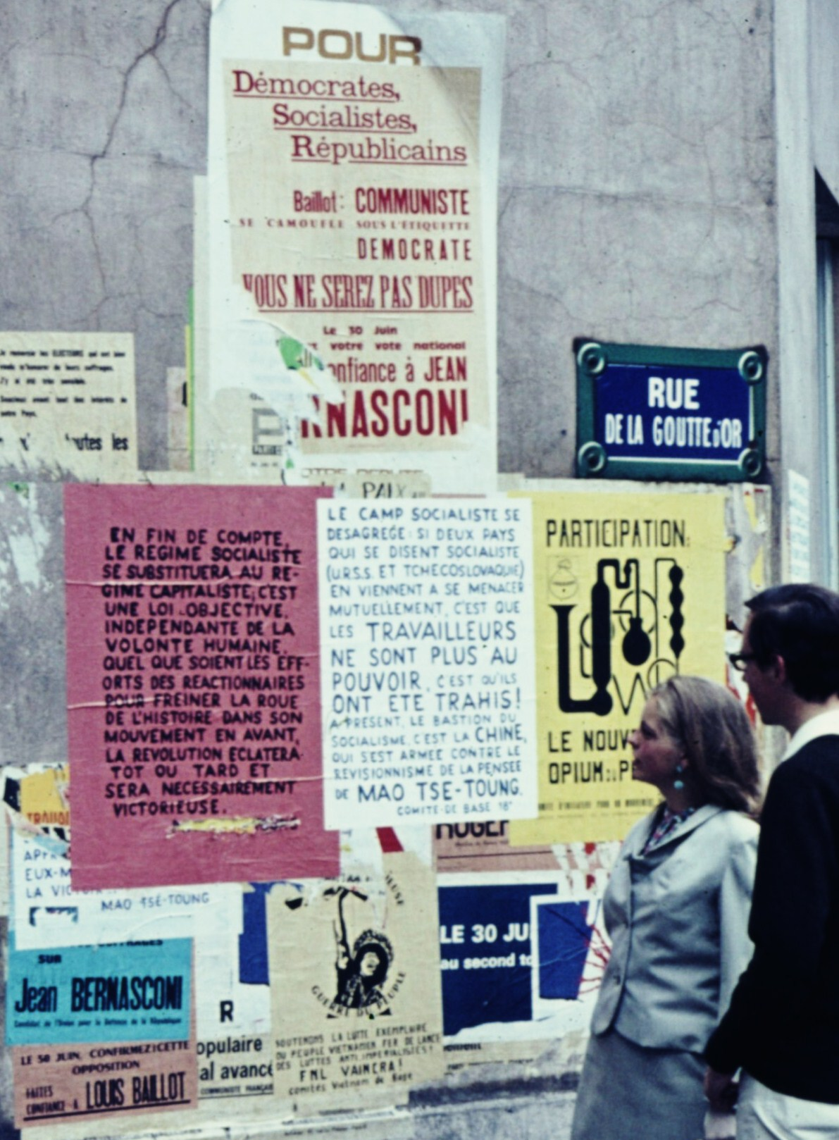 Posters on a wall - the remnants of May 1968.